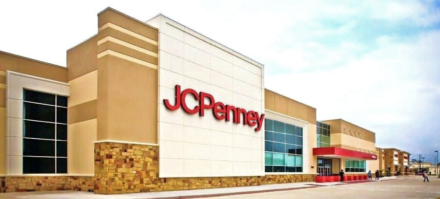 An example of a JCPenney standalone, big-box style store in "The Shops at Stone Park" power center in northeast Houston, Texas.